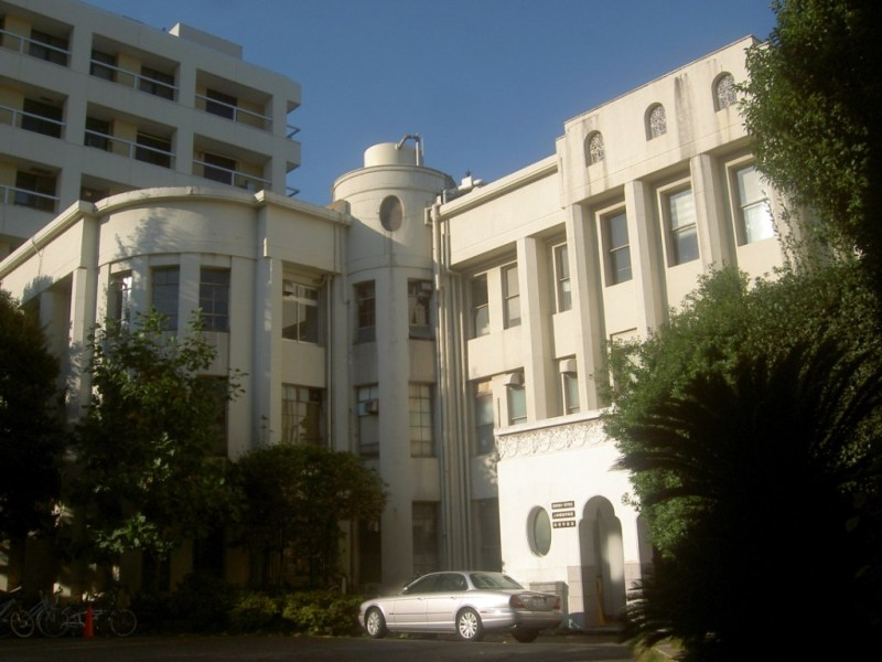 Tokyo Medical University, Shinjuku, Tokyo